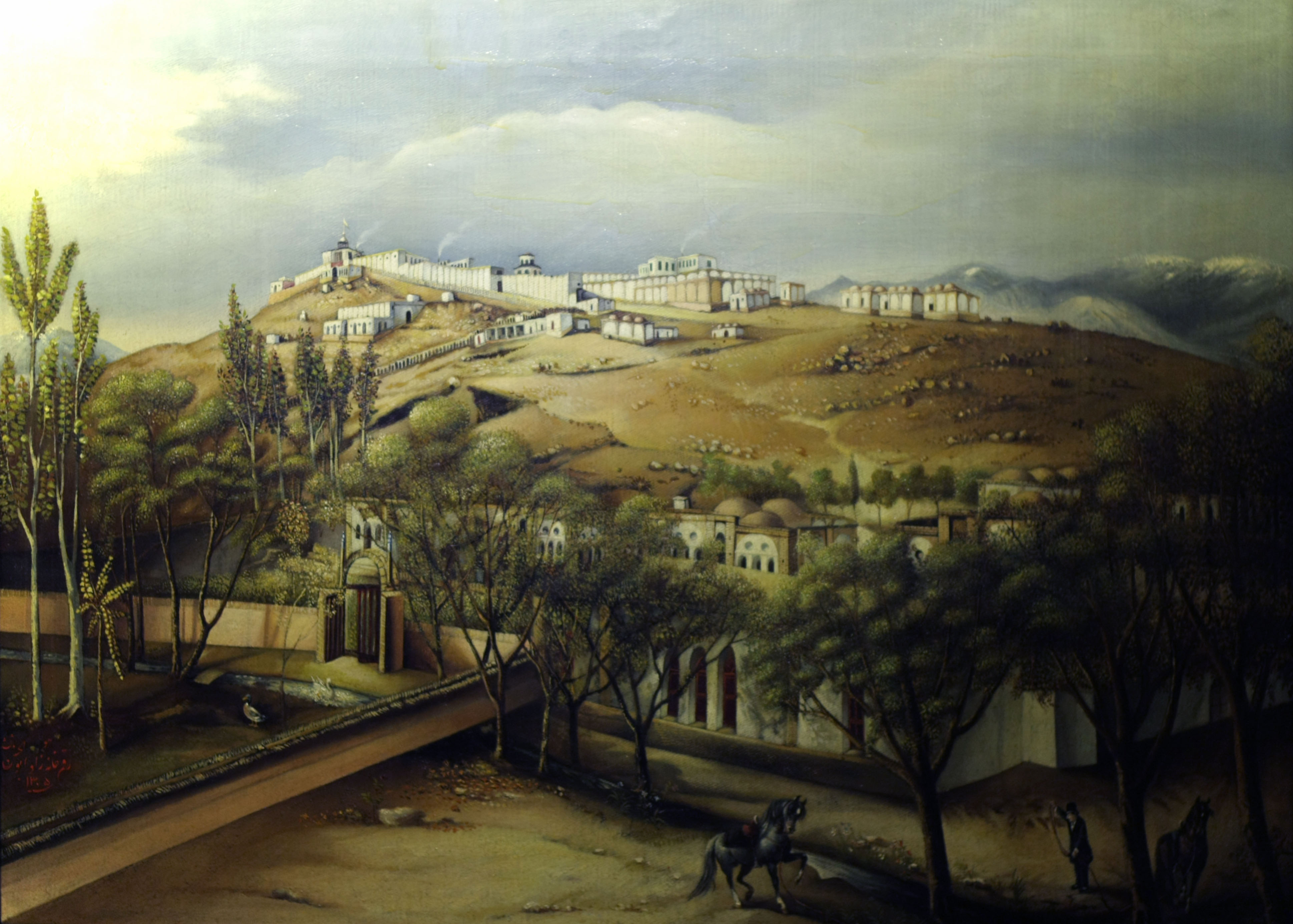 Dushan Tappe